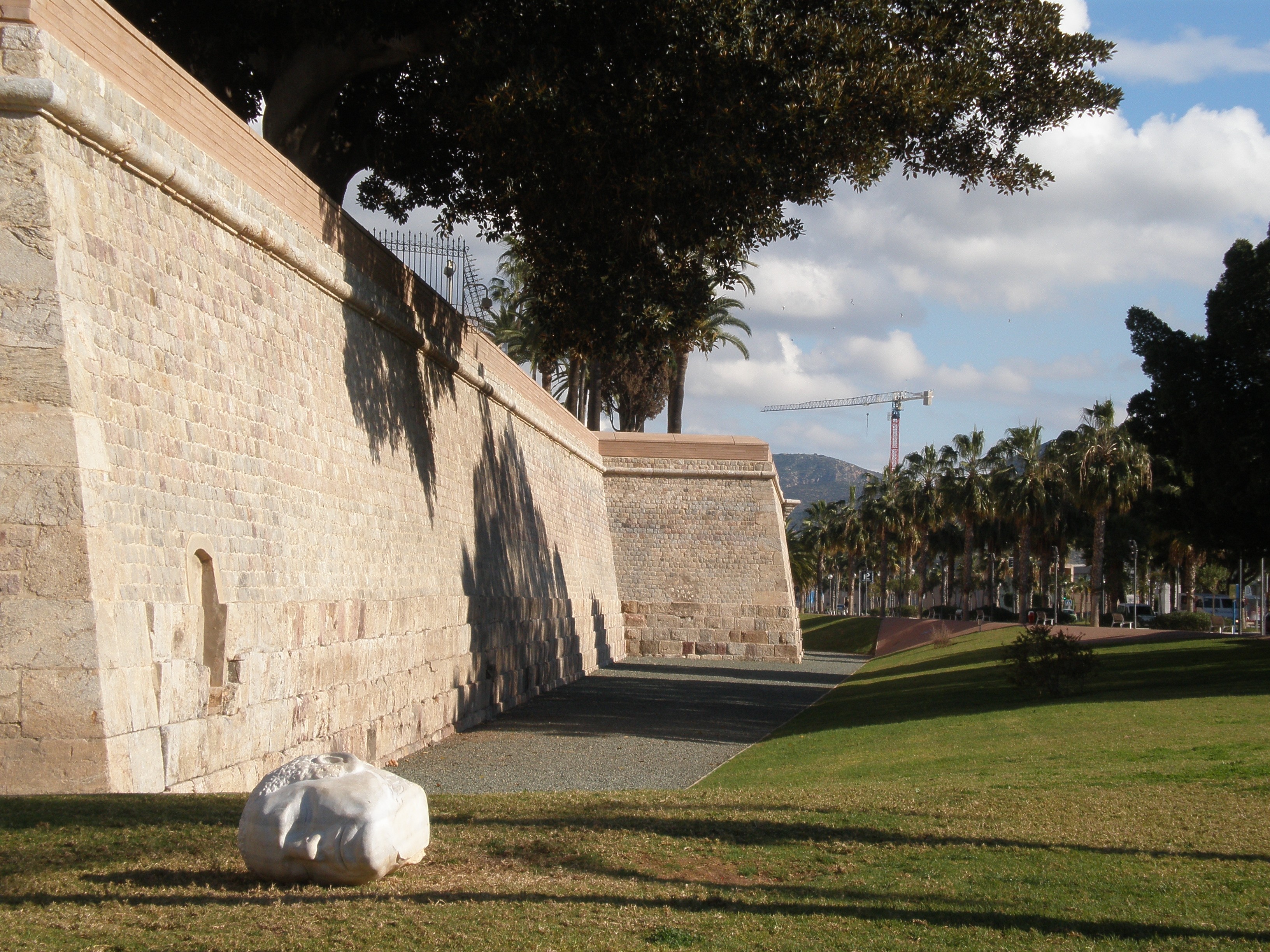 Carlos III Citadel